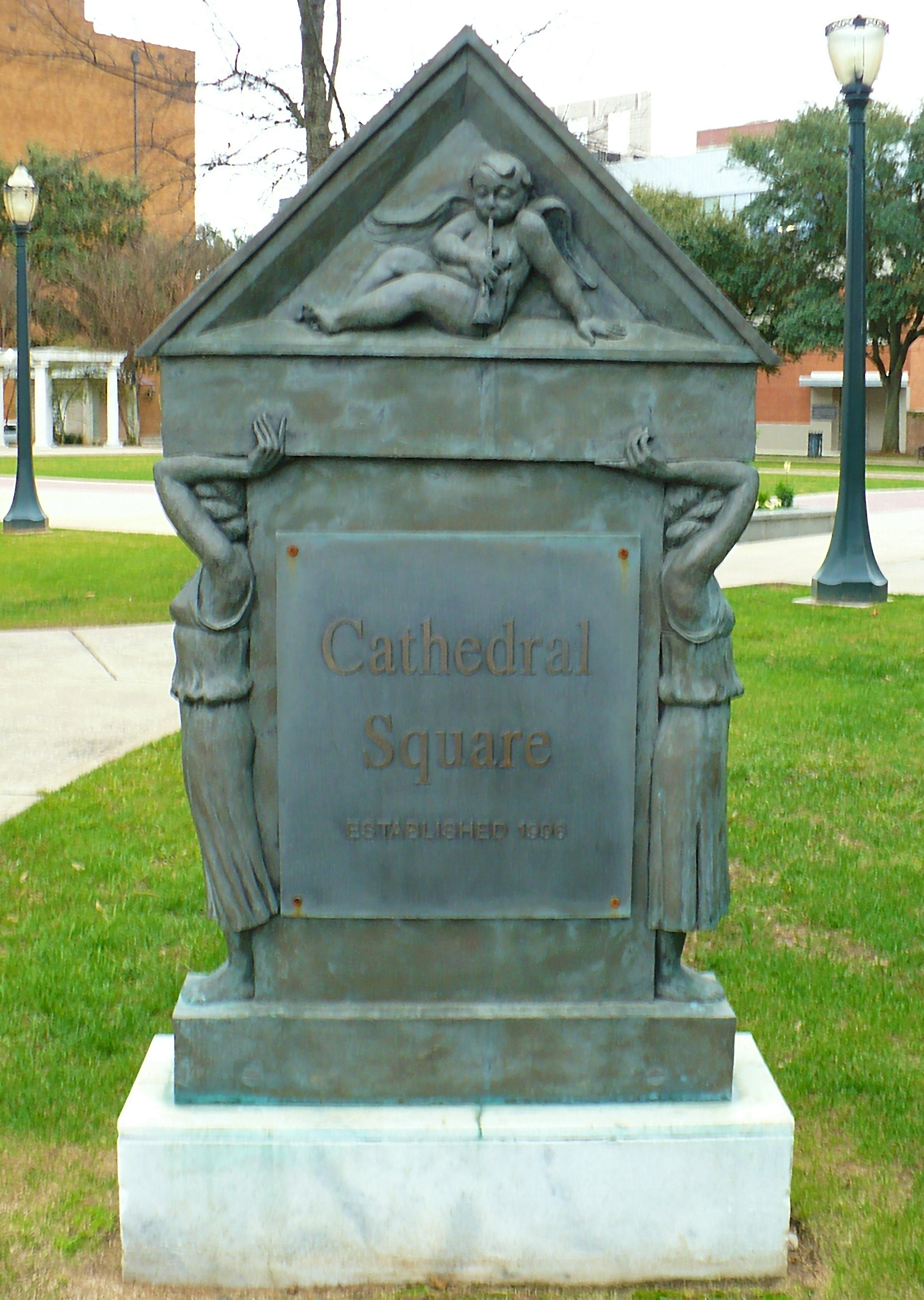 Sign in Cathedral Square in Mobile, Alabama.